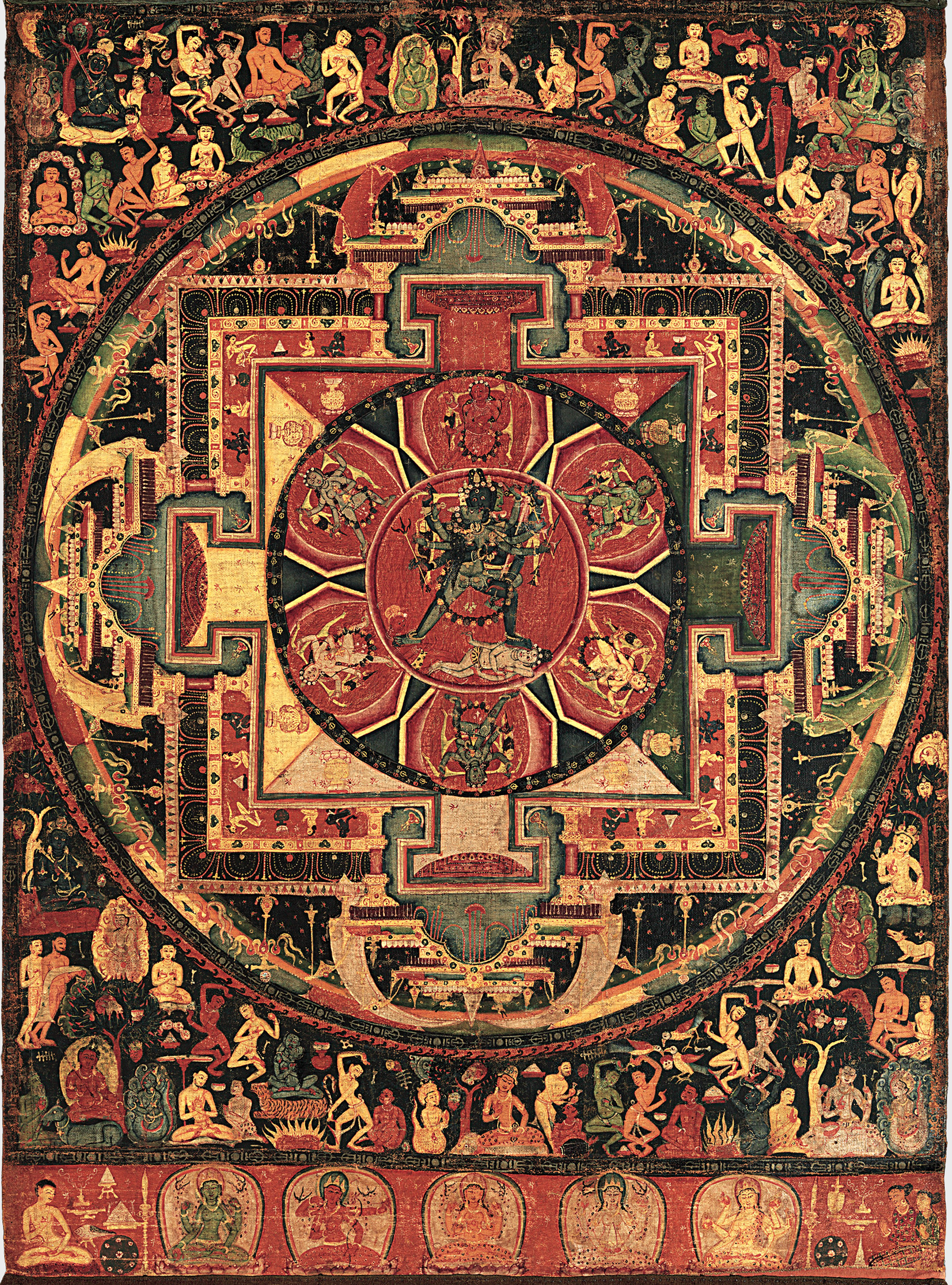 Chakrasamvara Mandala. Thakuri–Early Malla periods, Nepal, Kathmandu Valley. 26 1/2 x 19 3/4 in. (67.3 x 50.2 cm). This ritual diagram (mandala) is conceived as the cosmic palace of the wrathful Chakrasamvara and his consort, Vajravarahi, seen at center. These deities embody the esoteric knowledge of the Yoga Tantras. Six goddesses on stylized lotus petals surround the divine couple. Framing the mandala are the eight great burial grounds of India, each presided over by a deity beneath a tree. The cemeteries are appropriate places for meditation on Chakrasamvara and are emblematic of the various realms of existence. The lower register contains five forms of the goddess Tara, a tantric adept at left, and two donors at right. This mandala is one of the earliest surviving large-scale paintings known from Nepal. Stylistic features relate it to Nepalese manuscript covers and to eastern Indian palm-leaf manuscript illustrations of the twelfth century.